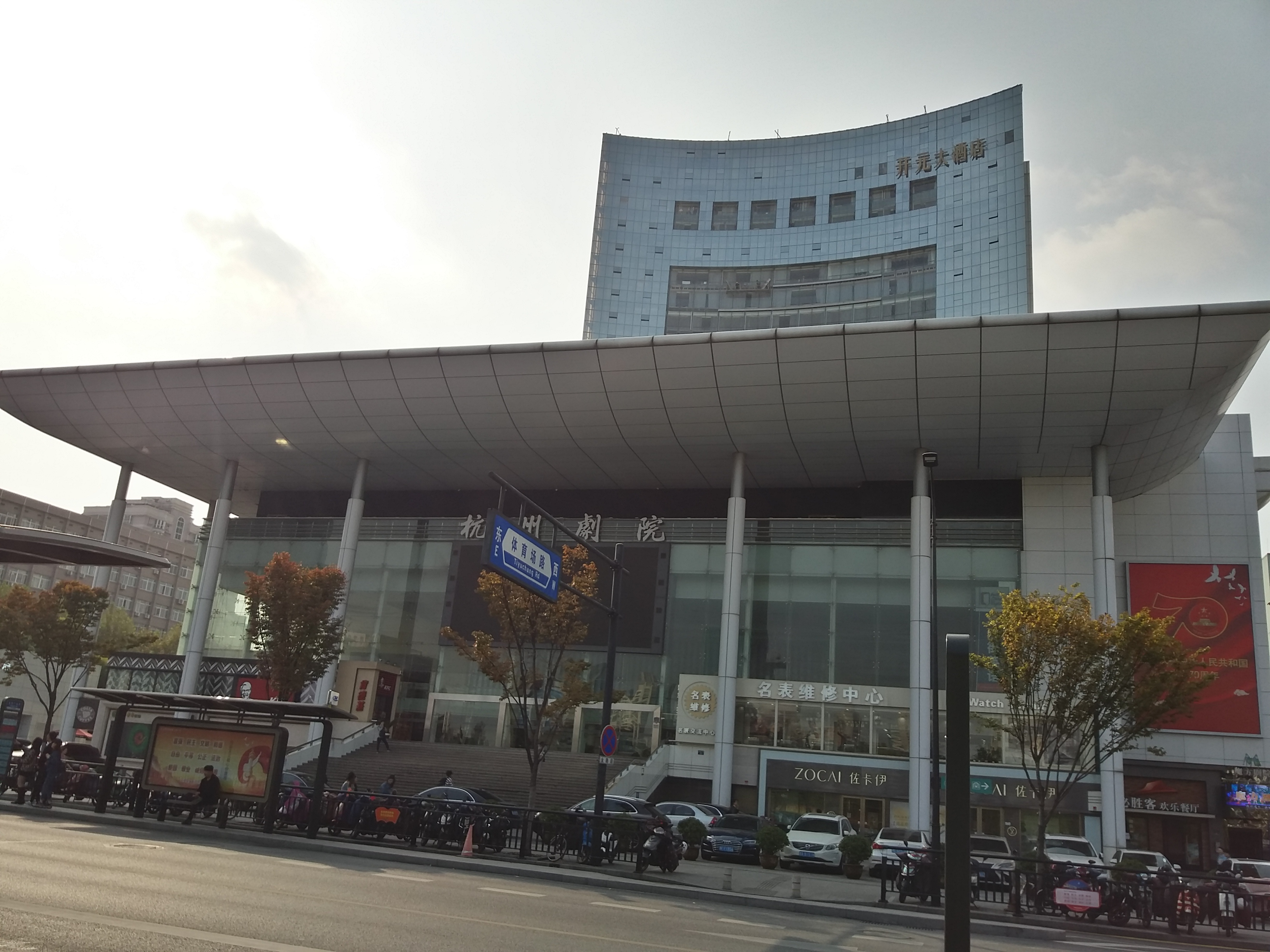 Wulin Square